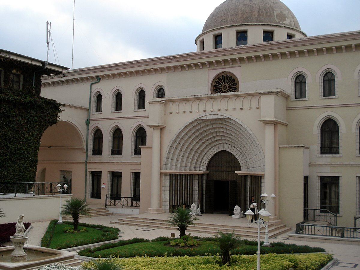 University Plaza, Universidad San Francisco de Quito. One of the little courtyards at USFQ. The building with the cupola is Maxwell, while the ivy-covered building next to it is DaVinci.